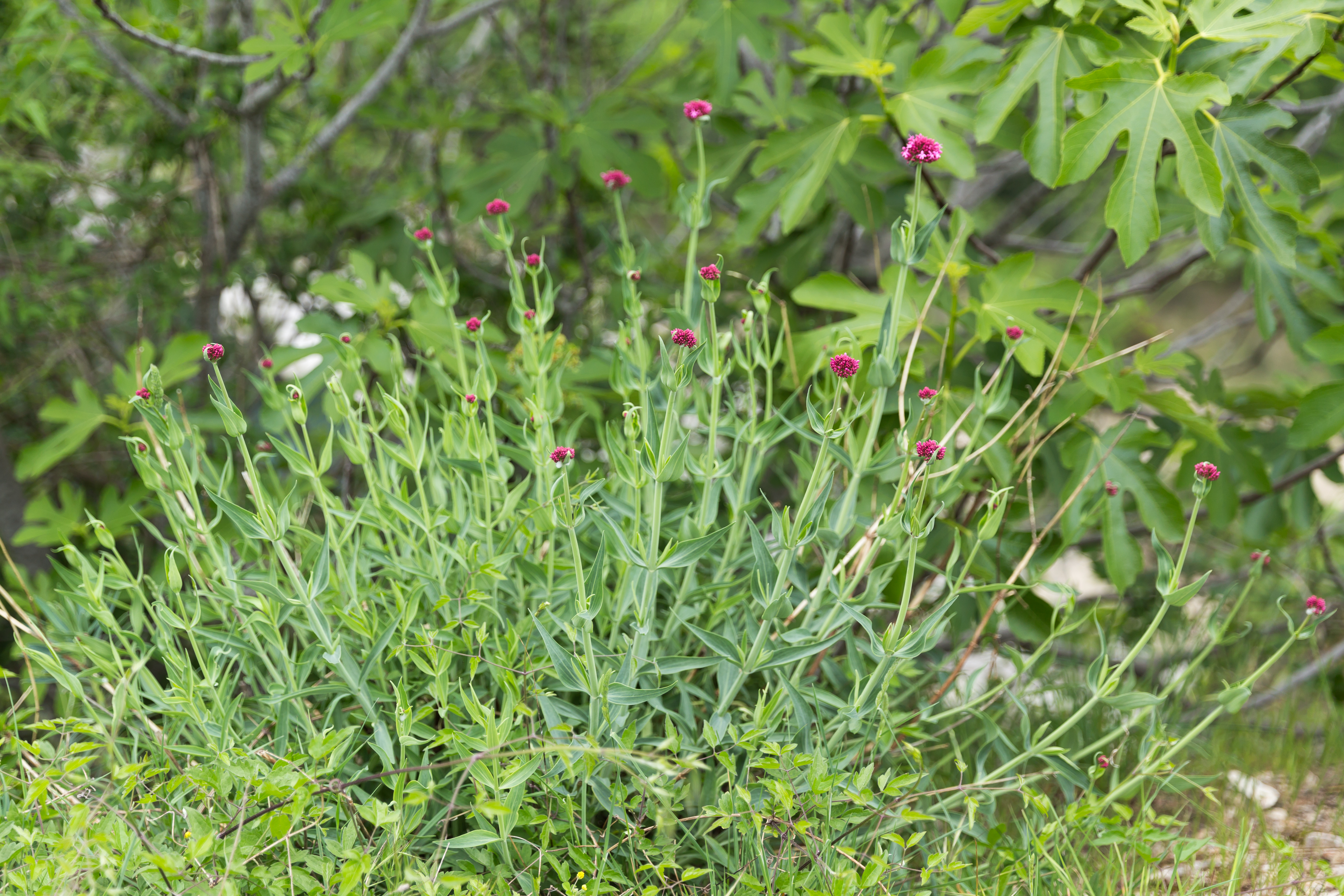 Centranthus ruber (Red valerian) in Saint-Martin-d'Ardèche, France.